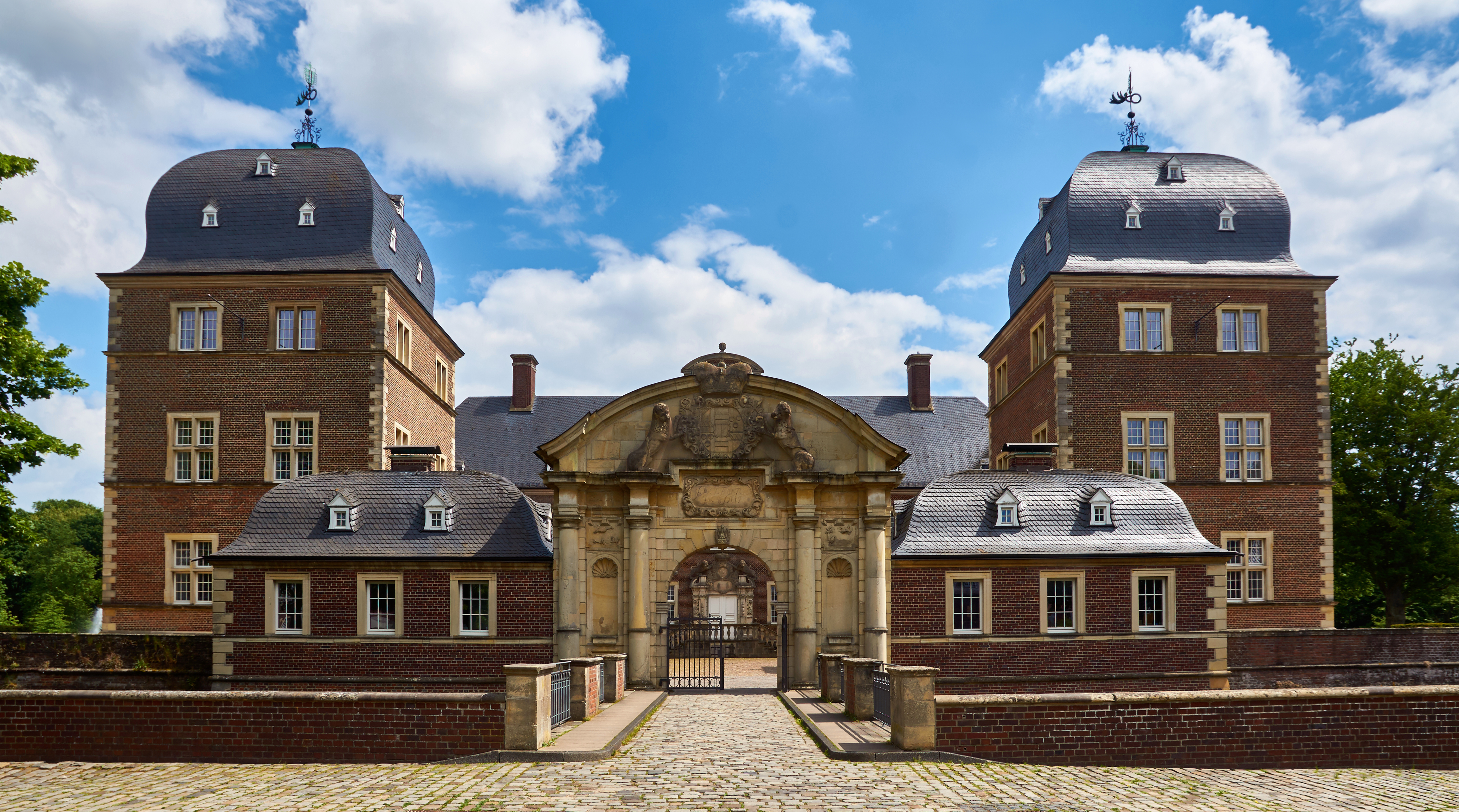 Ahaus Castle, Ahaus, district of Borken, North Rhine-Westphalia, Germany. This is a photograph of an architectural monument.It is on the list of cultural monuments of Ahaus